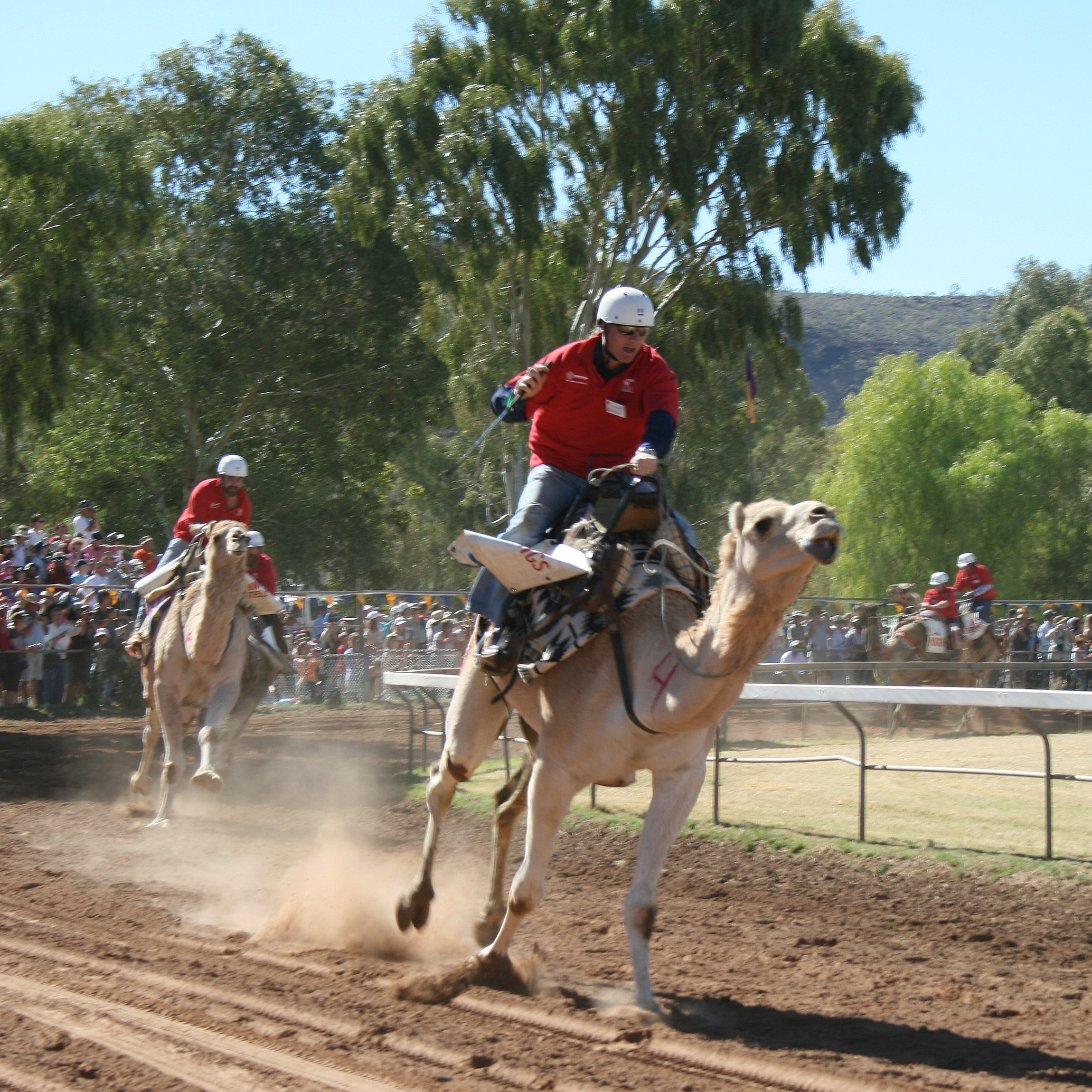 Camel racing during the 2009 Camel Cup in Alice Springs. This depicts the eventual winner of one of the heats.